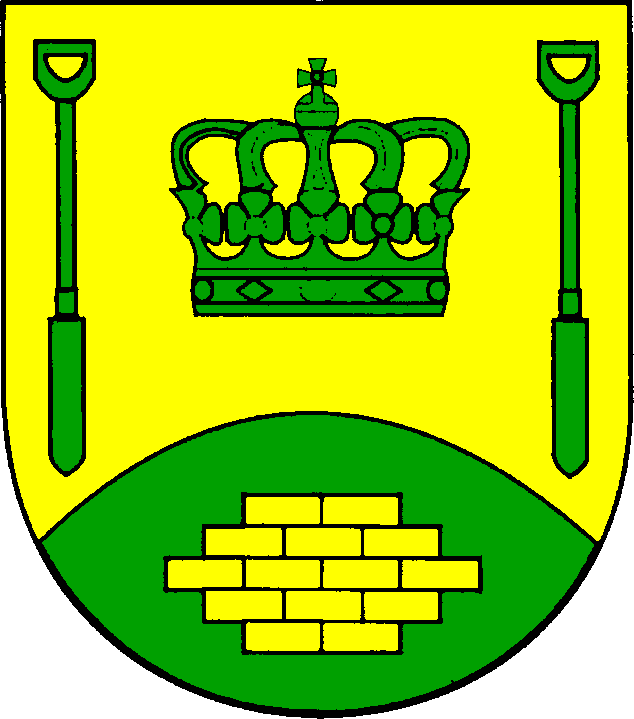 Coat of arms of the municipality Friedrichsholm in Schleswig-Holstein, Germany.